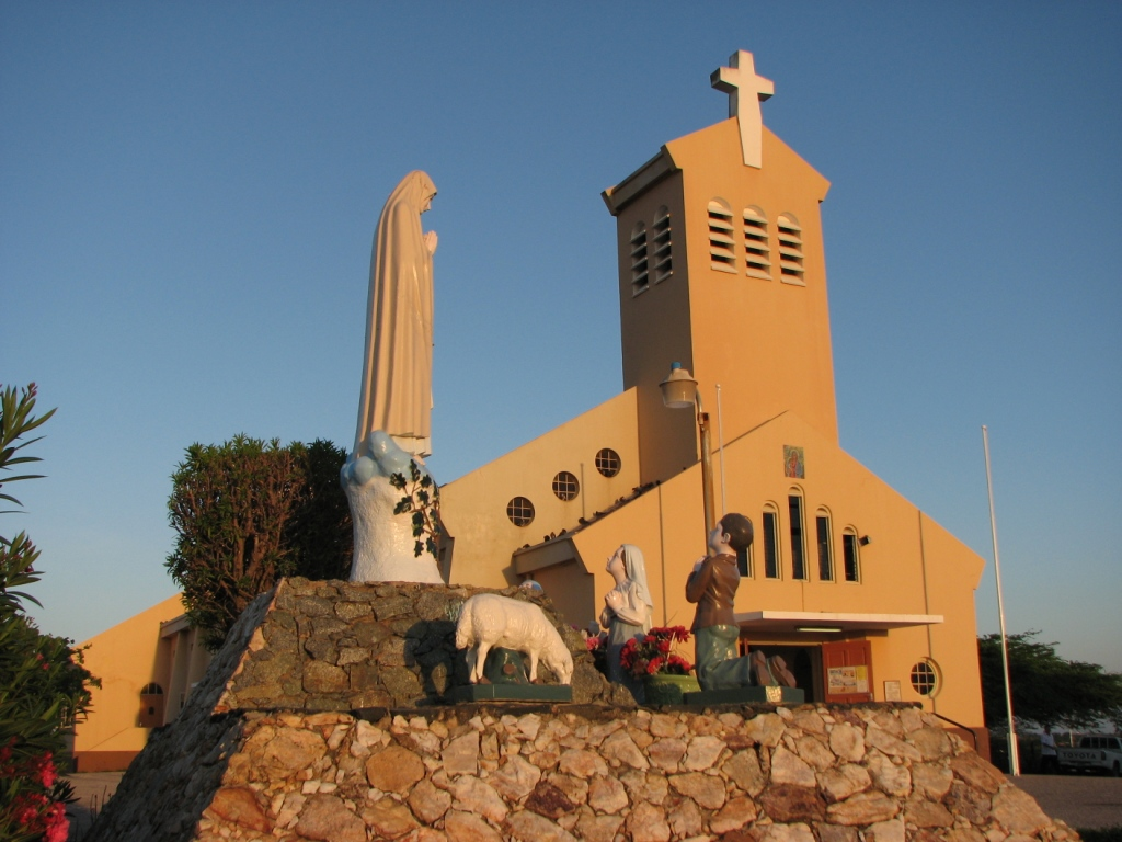 Filomenakerk, Plaza Louis Eusabio Kraanwinkel, Paradera